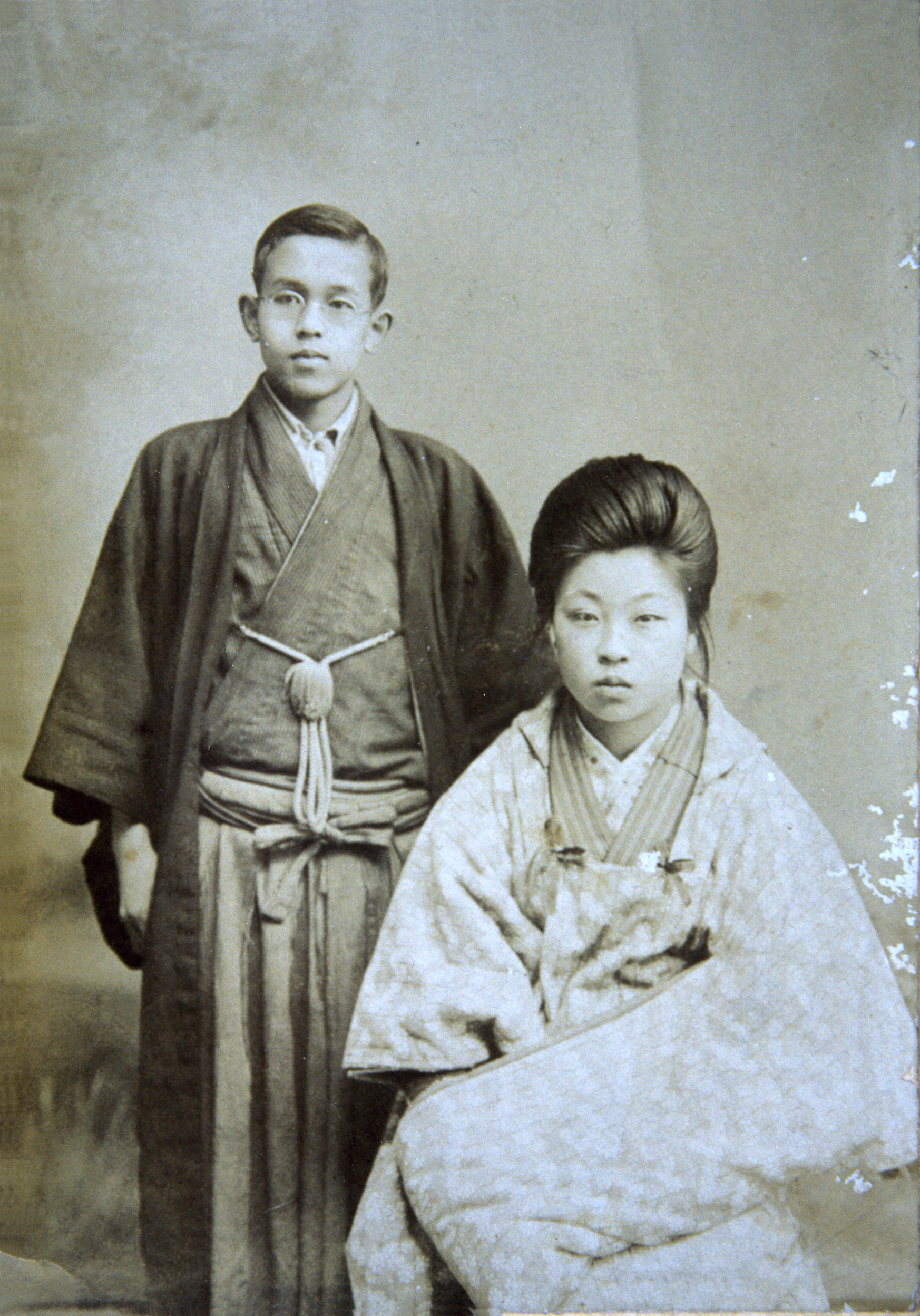 Takuboku Ishikawa (1986–1912)